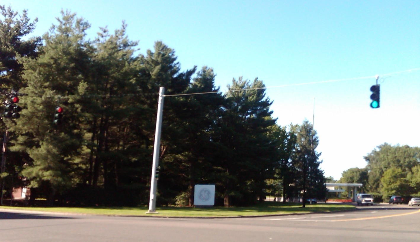 Front driveway to GE Corp. in Fairfield, CT USA